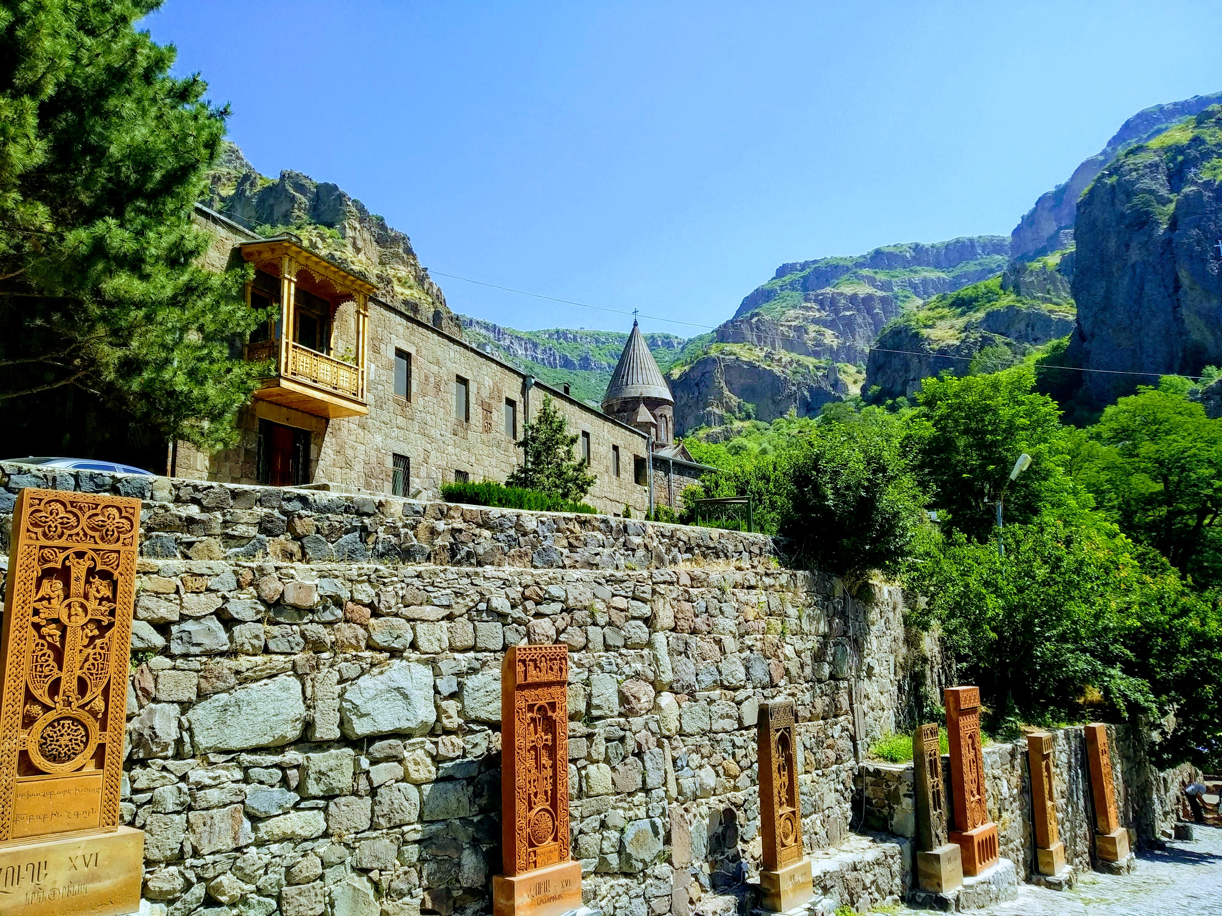 Geghard entrance khachkars with effects